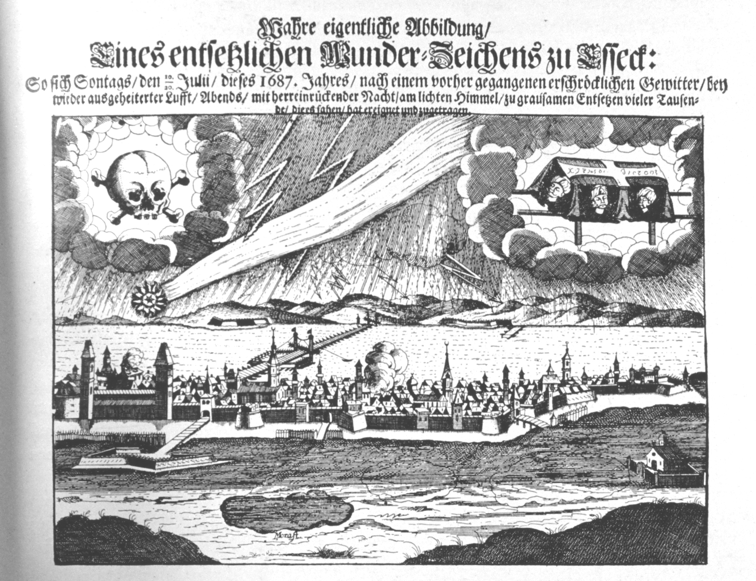 Leaflet of a comet